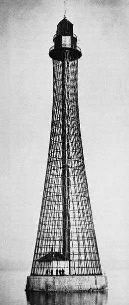 Adziogol Lighthouse – hyperboloid structure by great Russian engineer and scientist Vladimir Grigorievich Shukhov